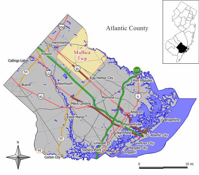 Source: Jim Irwin Original work by Jim Irwin, December 2005.